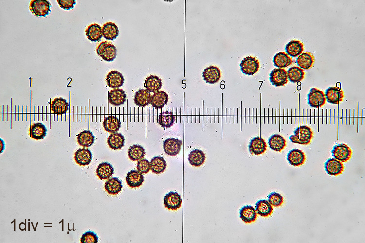 The basidiospores of the earthstar mushroom, Geastrum triplex Jungh. Spores obtained from a specimen collected in Slovenia.